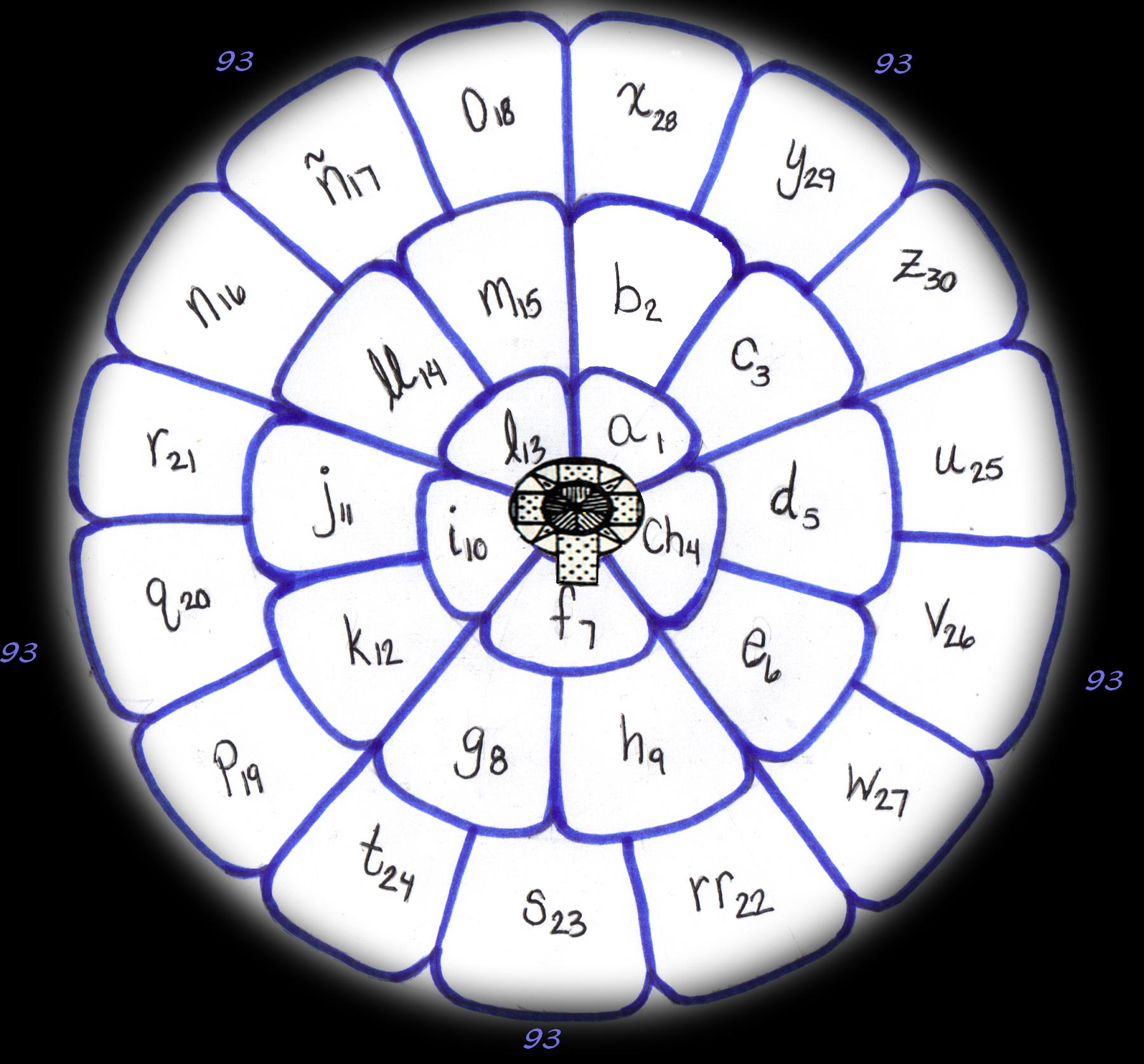 Thelemic Sigil Rose Template for English/SPanish etc.